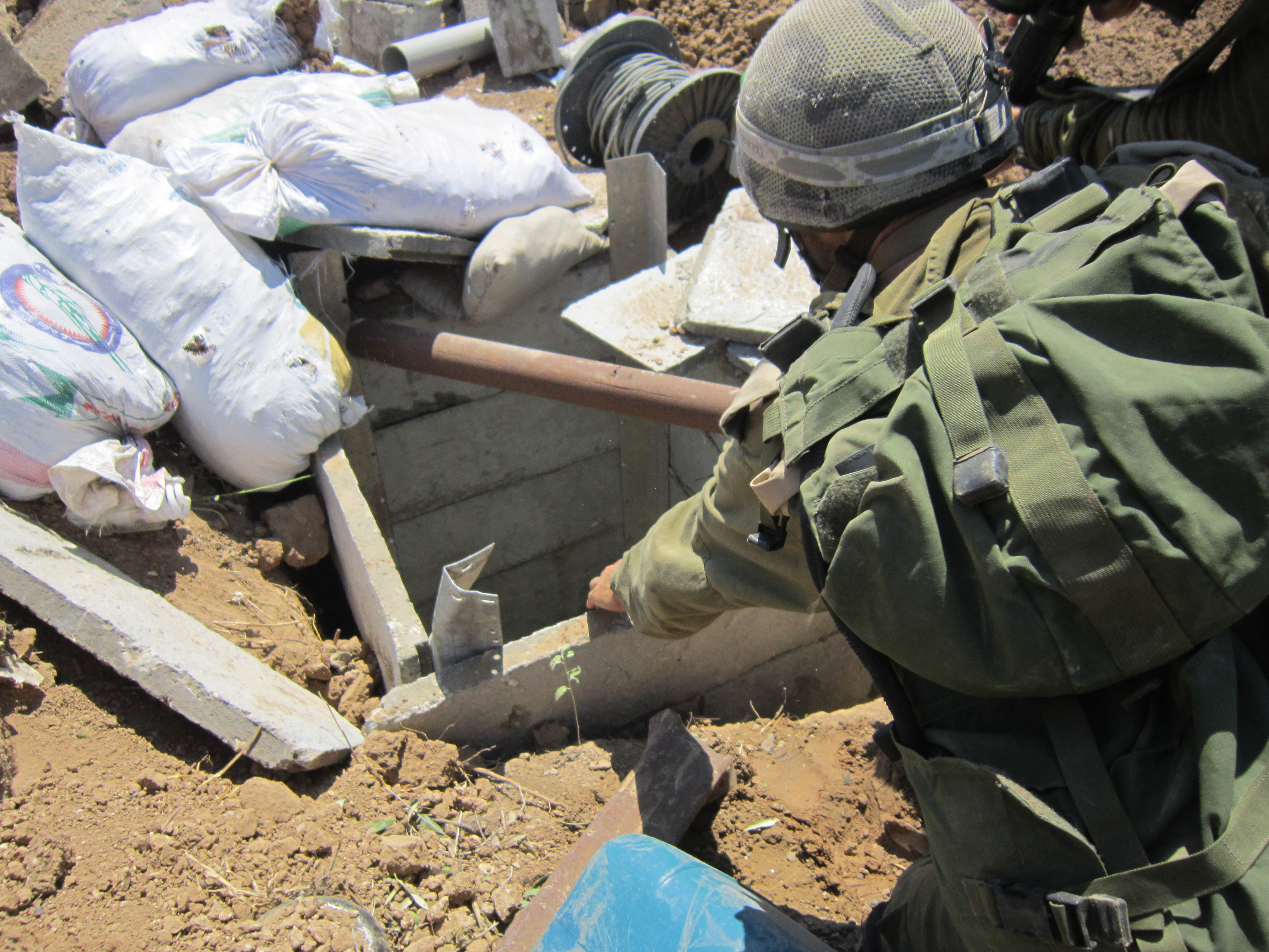 27/7/2014 For more updates: The Israel Defense Forces Facebook The Israel Defense Forces blog Follow us on Twitter